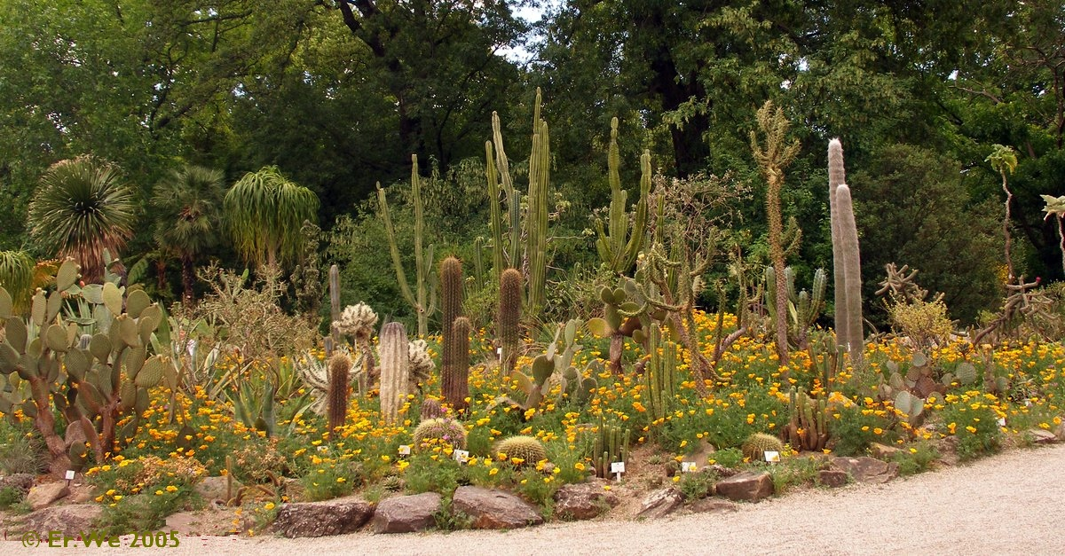 succulent garden, near main entrance of garden. plants are stored in glass houses during cold season